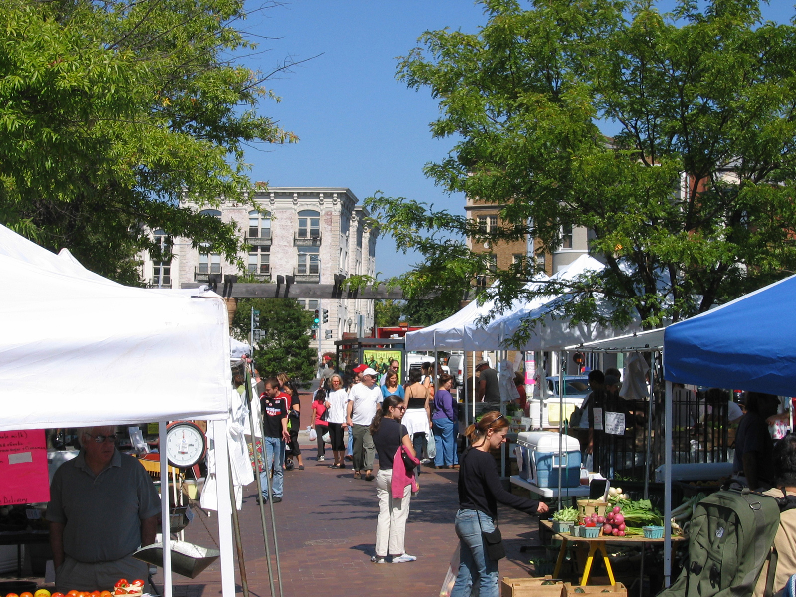 Mount Pleasant Farmers' Market, Saturdays (9am - 1pm), May-December.